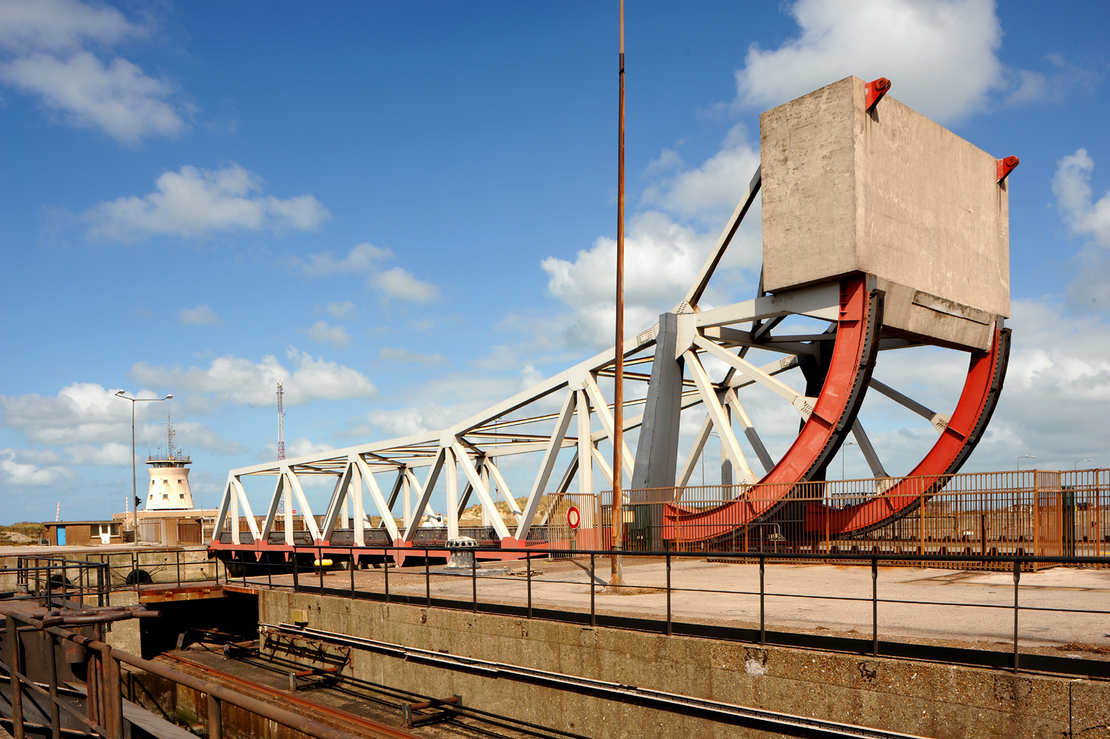 Pont de l'écluse Charles de Gaulle, rolling lift bascule bridge in the harbour of Dunkirk; Nord, France.